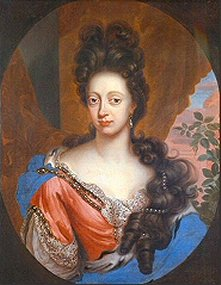 Princess Sophia Hedwig of Denmark (1677-1735)